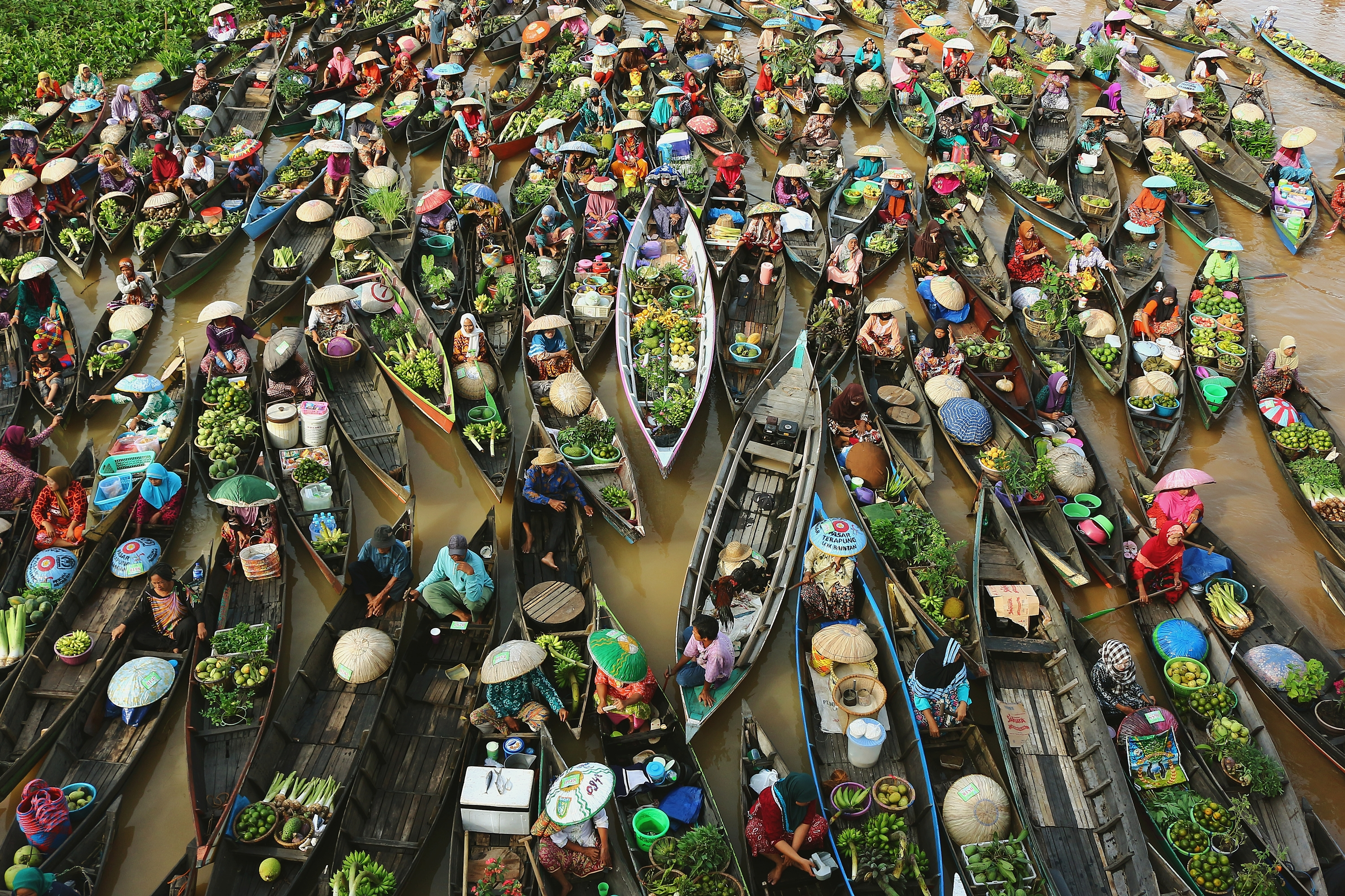 Pasar terapung is a culture of the city of a thousand rivers, Banjarmasin. The uniqueness of transactions in pasar terapung is a reflection of the culture of the people of Banjar. Until now the pasar terapung Lok Baintan, at Banjar district is still as the main attraction of South Kalimantan's trade and tourism activities